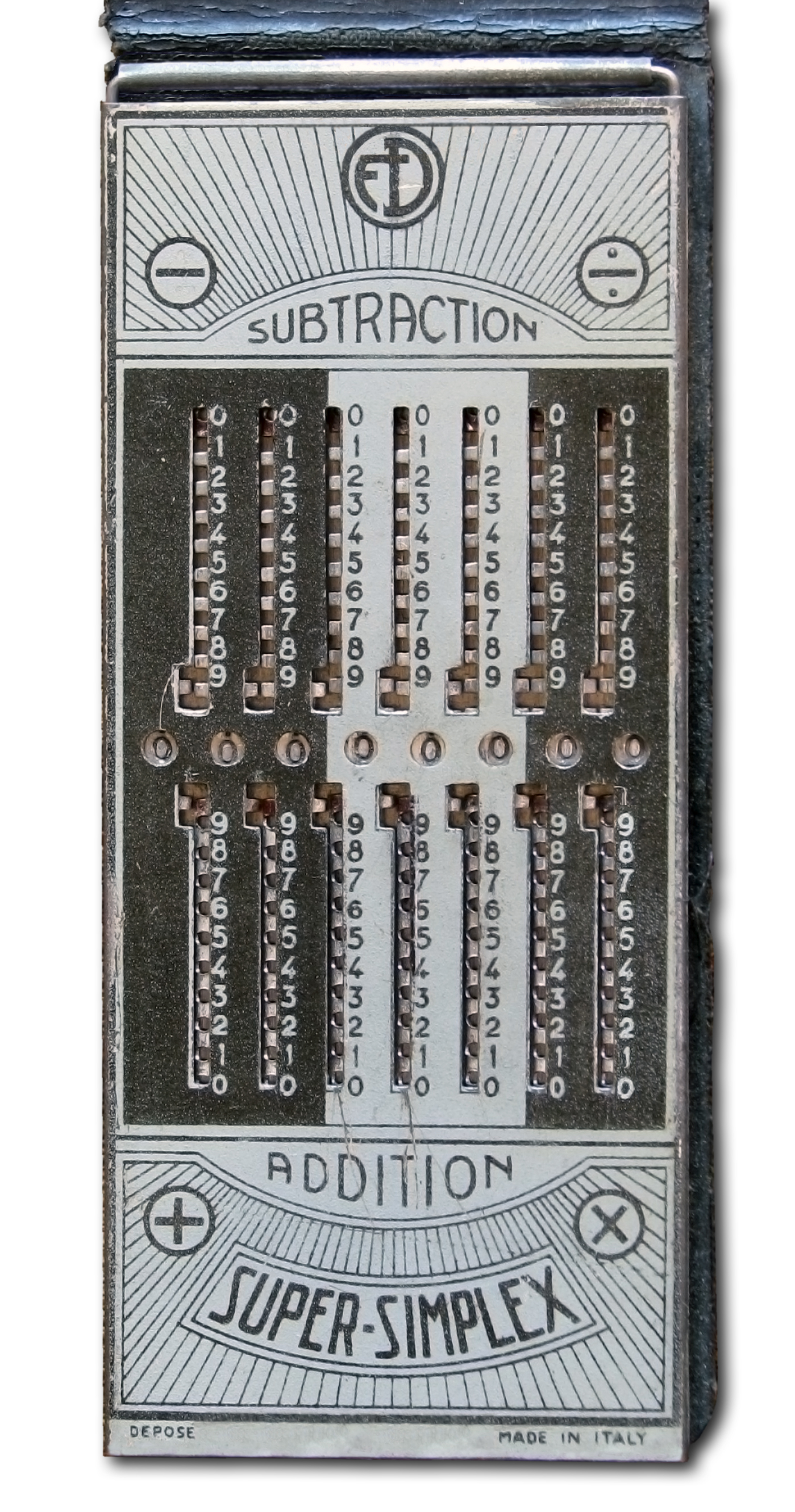 "Super-Simplex" slide adder ("Addiator" like)